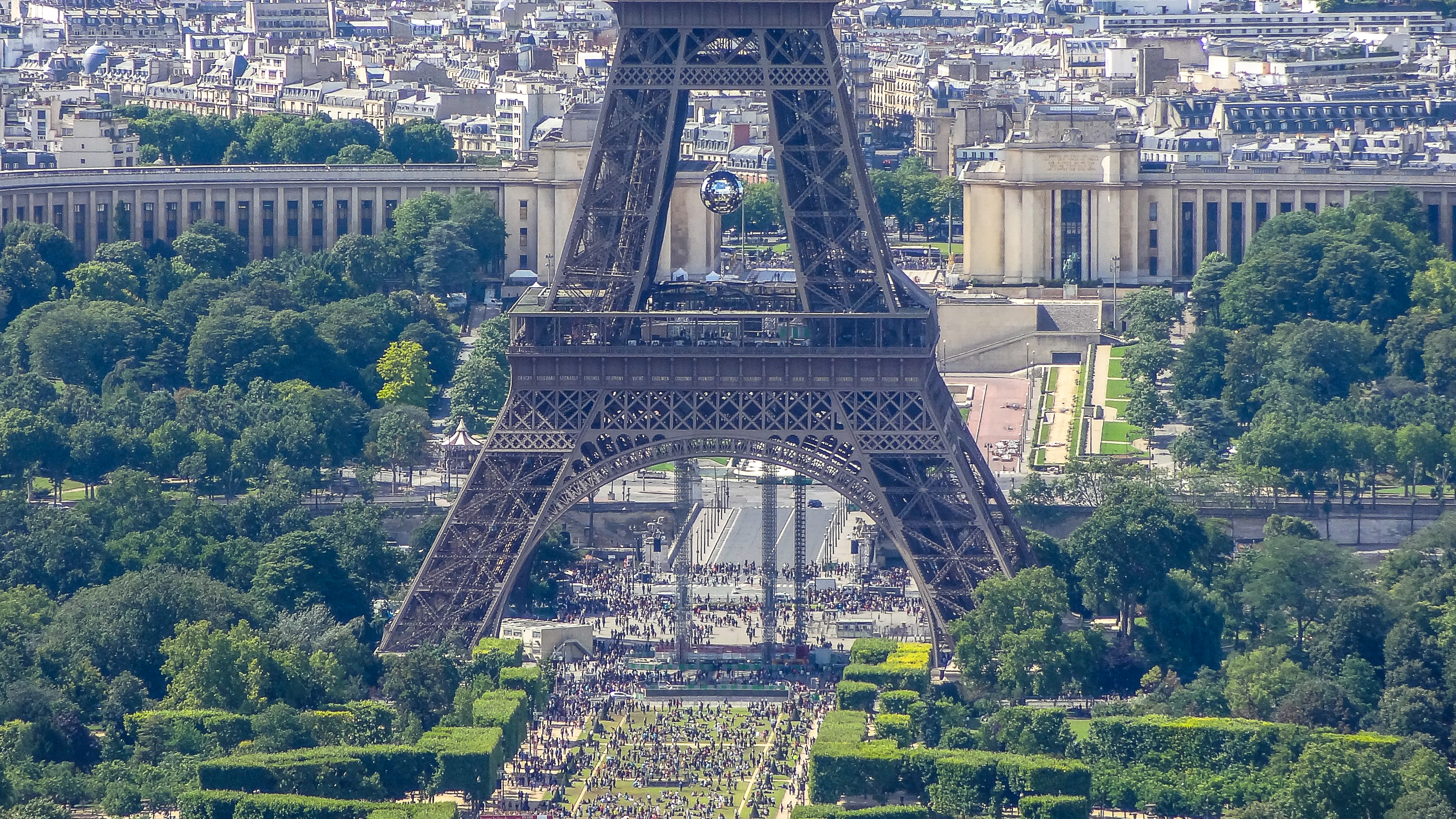 Eiffel Tower from the Tour Montparnasse.